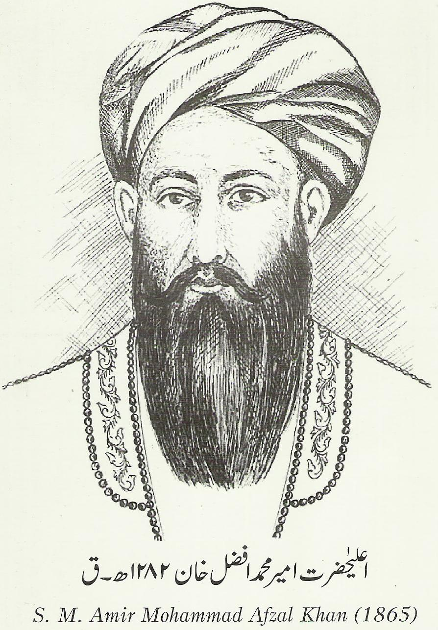 Amir Mohammad Afzal Khan ruled Afghanistan in 1965